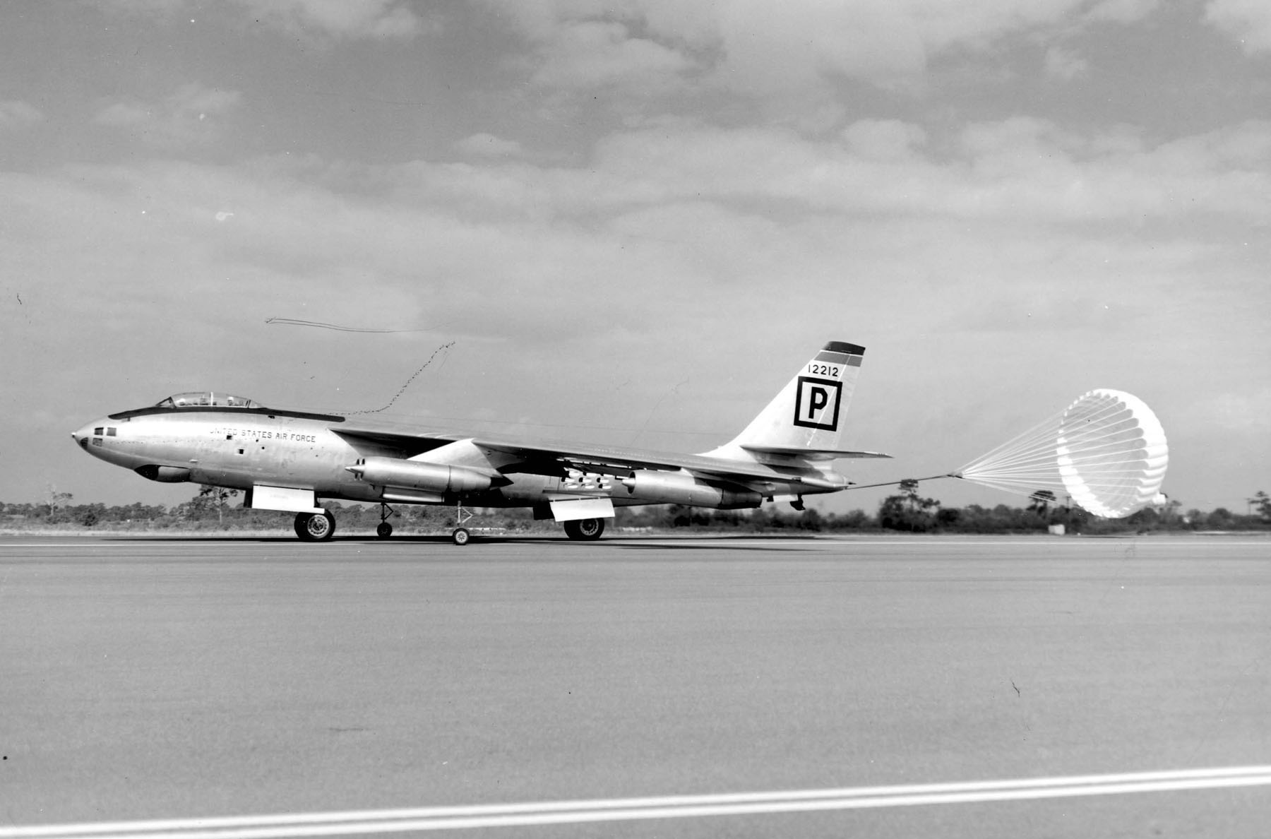 Boeing B-47B-40-BW (S/N 51-2212) of the 306th Bomb Wing (Medium) landing with drag chute.